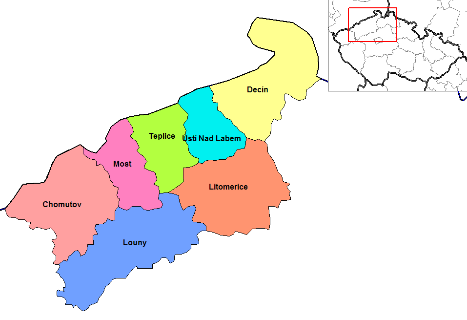 Map of the districts of Usti nad Labem region of the Czech Republic. Created by Rarelibra 15:30, 2 January 2007 (UTC) for public domain use, using MapInfo Professional v8.5 and various mapping resources.